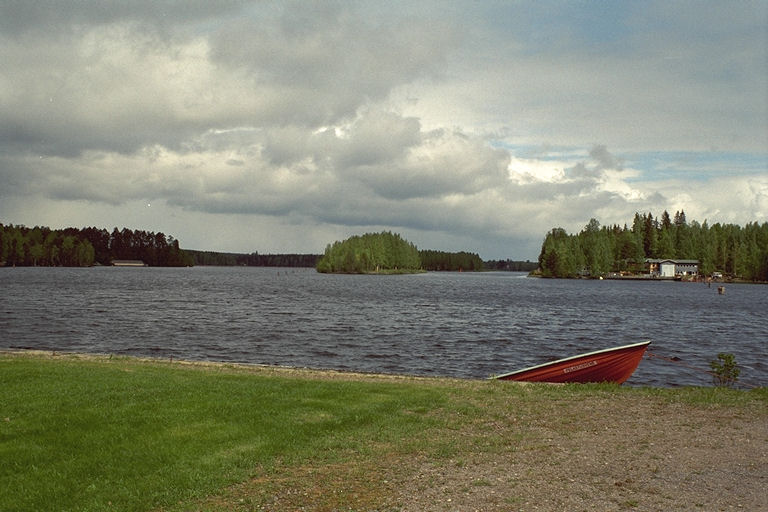 Alajärvi canal in Varkaus, Finland